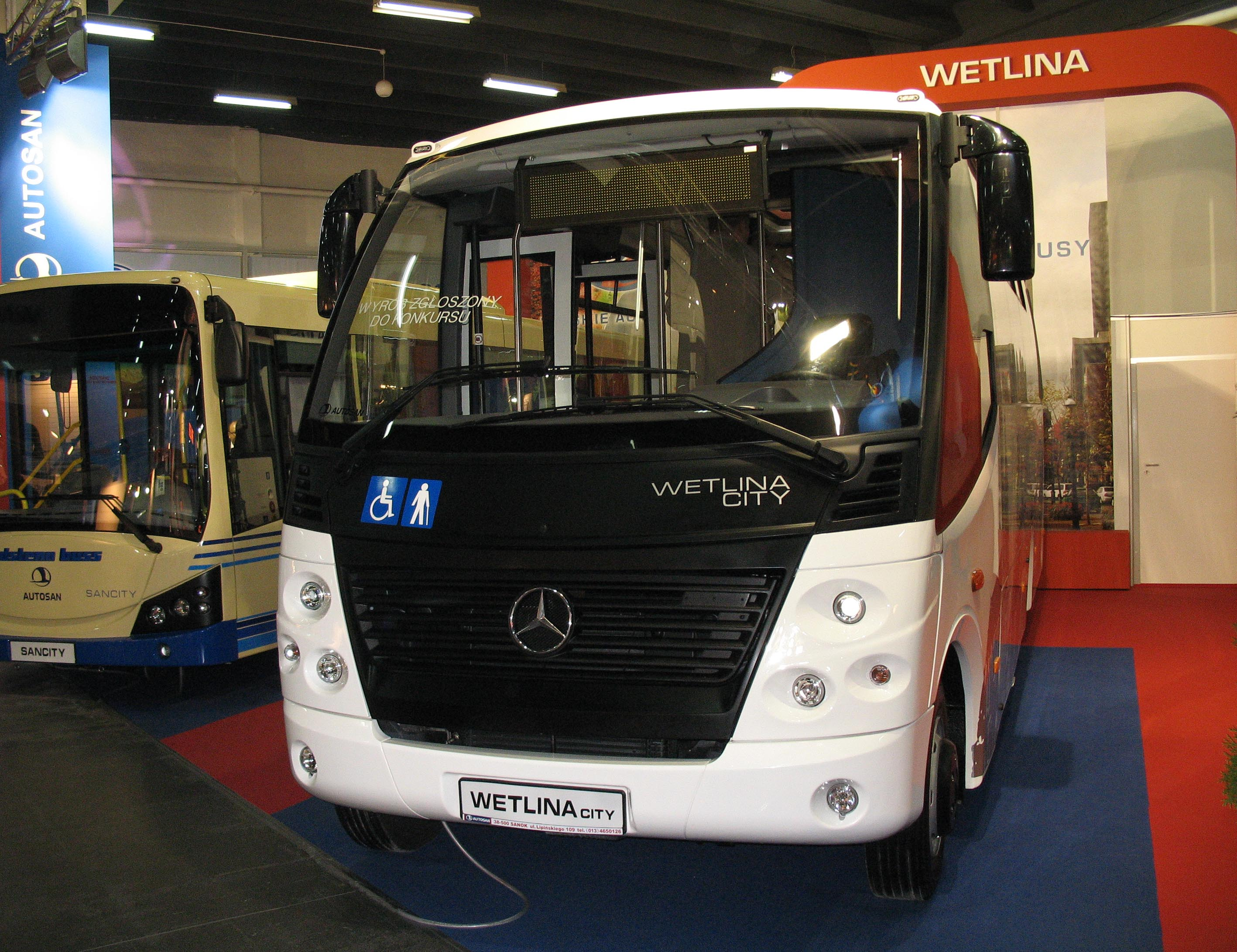 Autosan A8V.02.01 Wetlina City bus in Kielce, Poland. Built 2008. Base on Mercedes-Benz Vario.